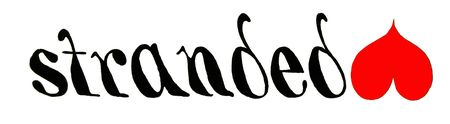 This is the logo of Stranded Rekords.